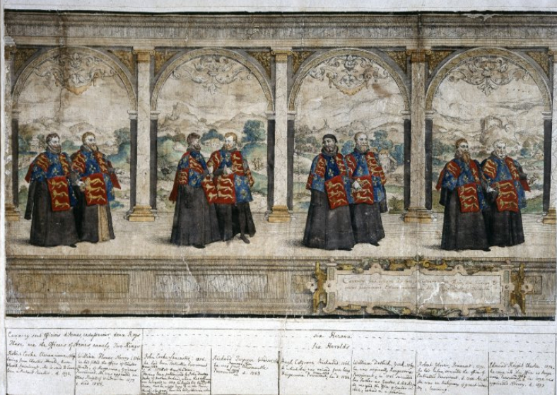 Procession of the Knights of the Garter, one of nine sheets: the sixth sheet of the procession with eight Knights (Anthony Brown, 1st Viscount Montagu and Robert Dudley, Earl of Leicester; George Talbot, 6th Earl of Shrewsbury and Ambrose Dudley, Earl of Warwick; Henry Carey, Lord Hunsdon and Francis Russell, 2nd Earl of Bedford; Sir Henry Sidney and William Somerset, 3rd Earl of Worcester). 1576